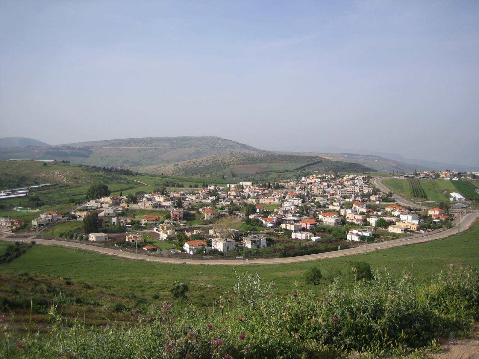 Reyhaniya is a Circassian town in Israel. One of the only two Circassian towns. The other one is Kfar Kama.